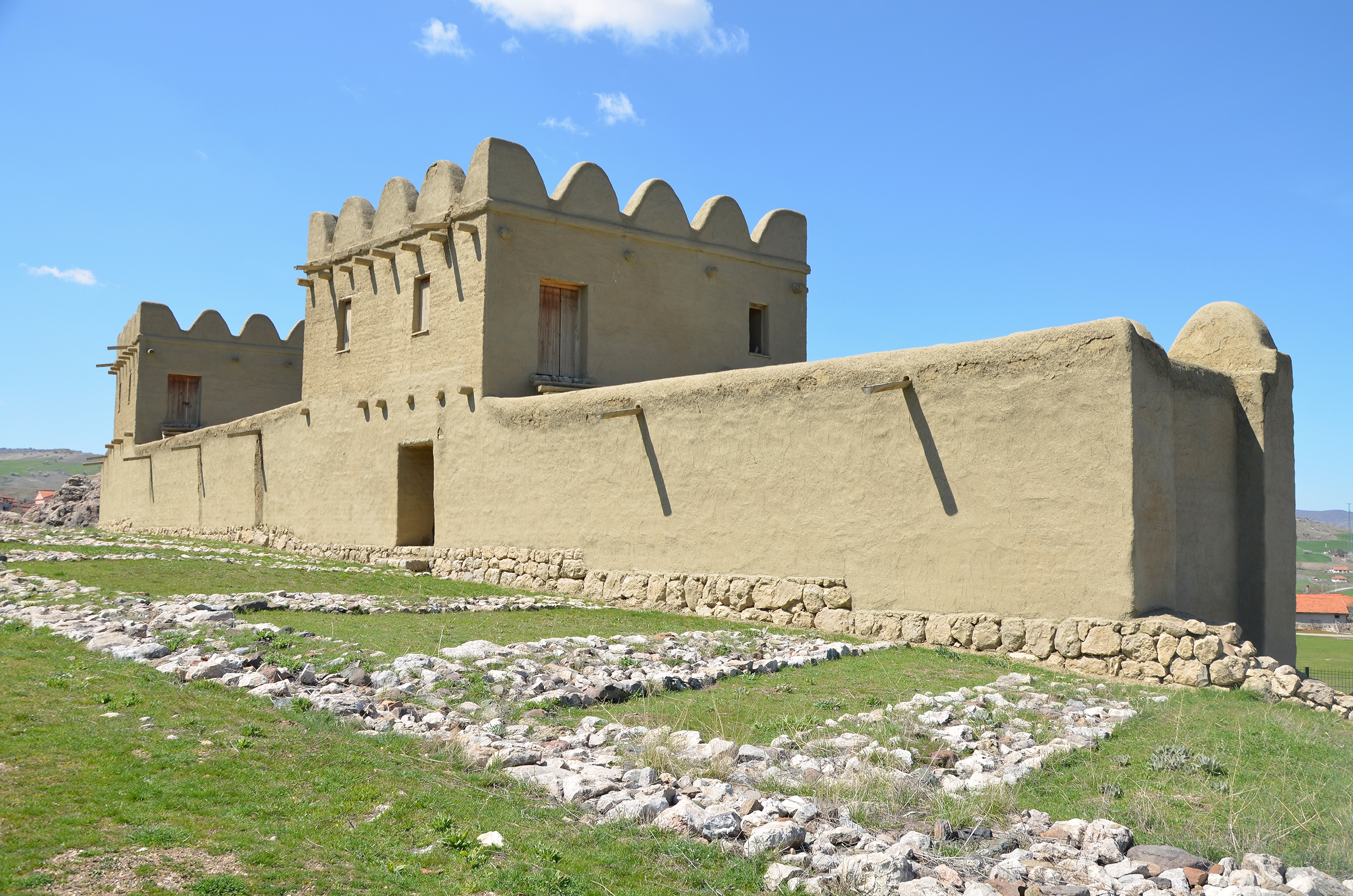 Modern reconstruction of a 65m long section of the city wall made of mud brick, Hattusa, the capital of the Hittite Empire in the late Bronze Age, Boğazkale, Turkey